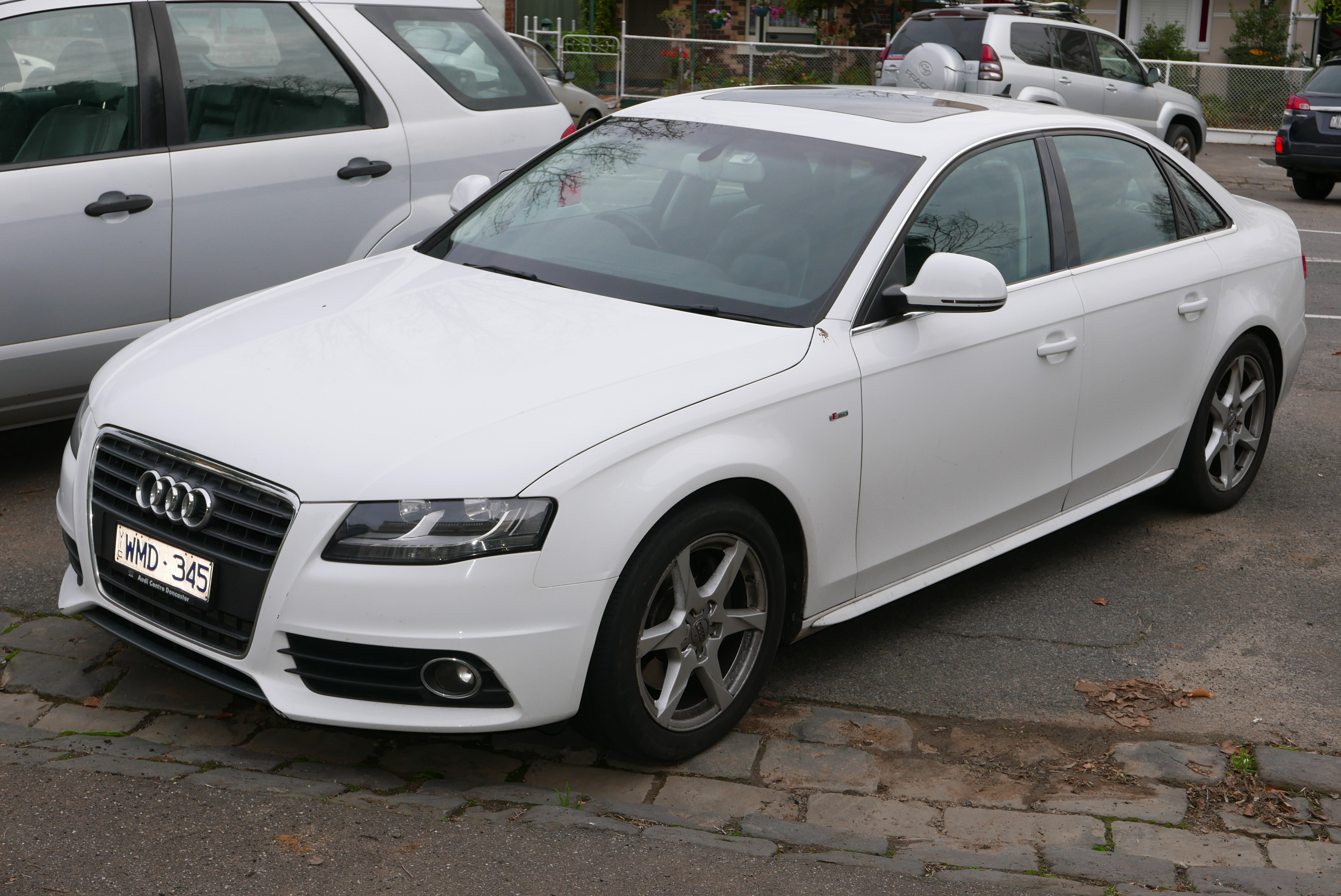 2008 Audi A4 (8K) 2.7 TDI S line sedan. Photographed in Fitzroy North, Victoria, Australia. Vehicle registration enquiry results Jurisdiction Victoria Registration WMD345 Chassis code WAUZZZ8K08A046924 Engine code CAM015684 Compliance date 2008-07 Year of manufacture 2008